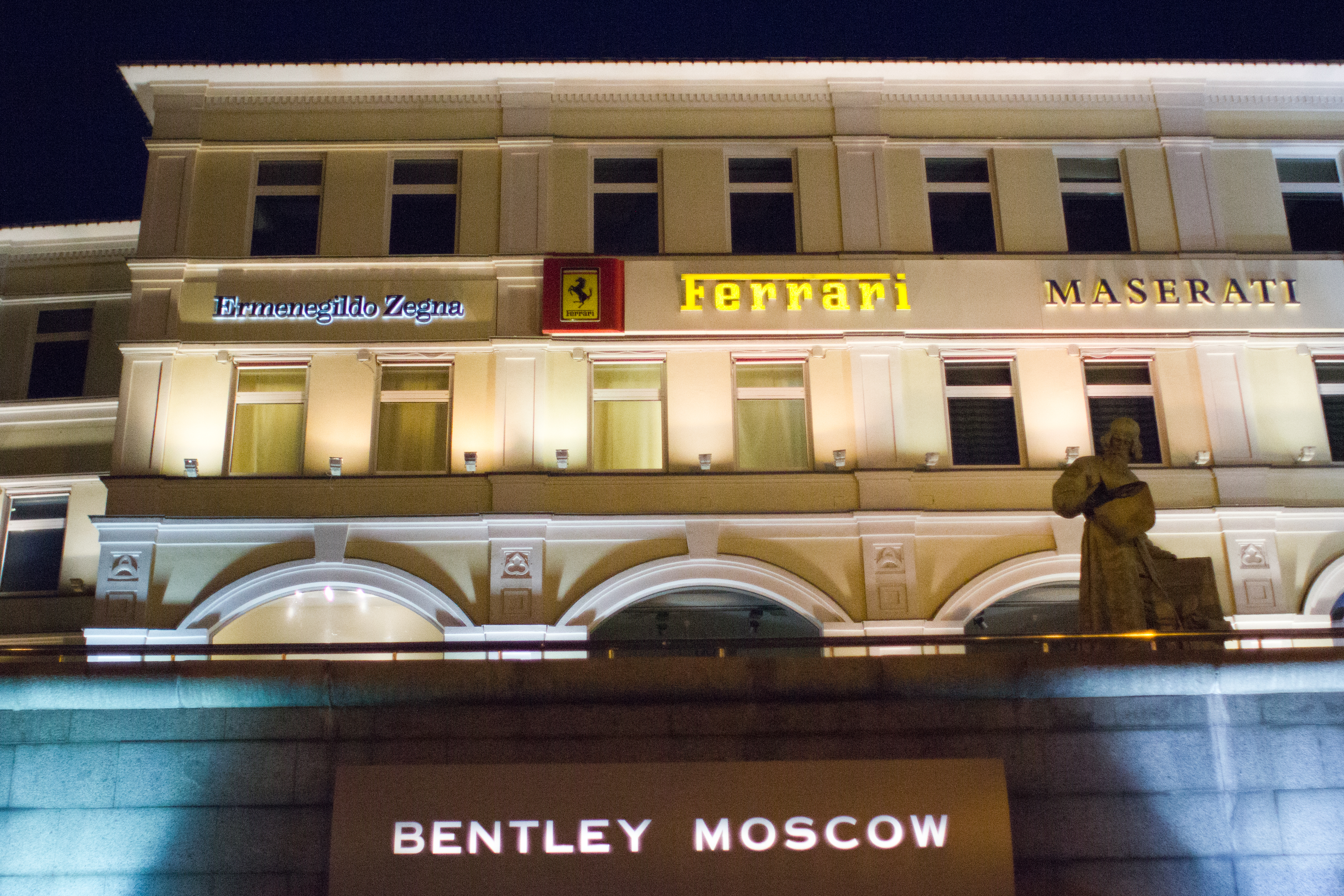 Russia